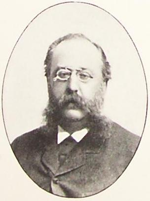 count Gustaf Sparre (1834-1914), Swedish politician; Speaker of the upper house of the riksdag 1896-1906.